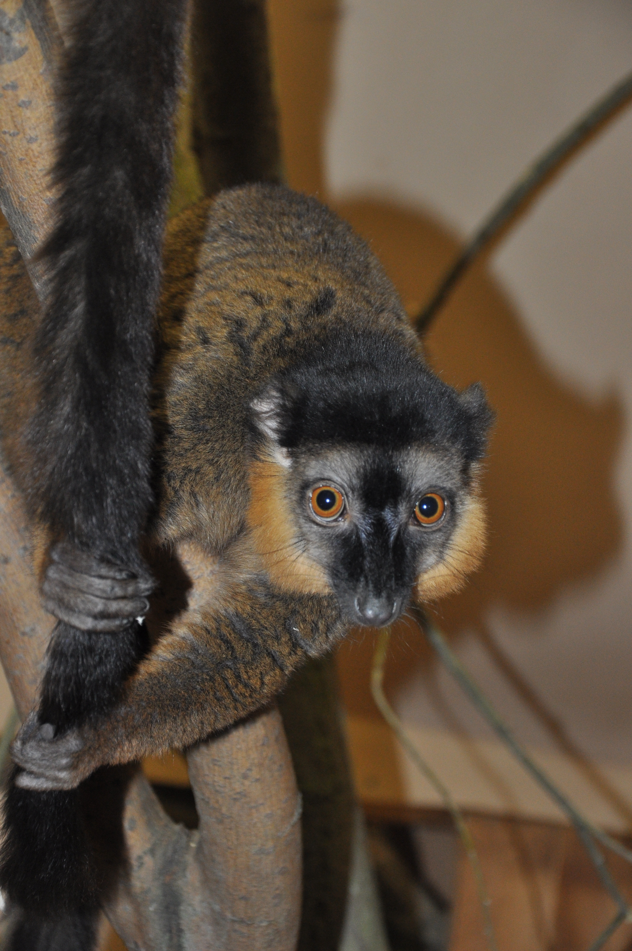 Eulemur collaris at Pilsen Zoo.